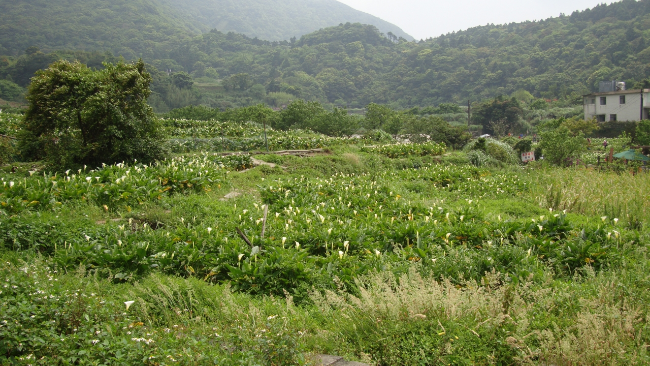 Yangmingshan National Park - Jhuzihhu the calla lily fields